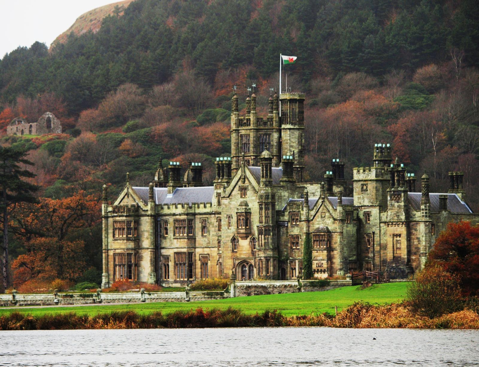 26 Margam Castle 18th Nov 2009